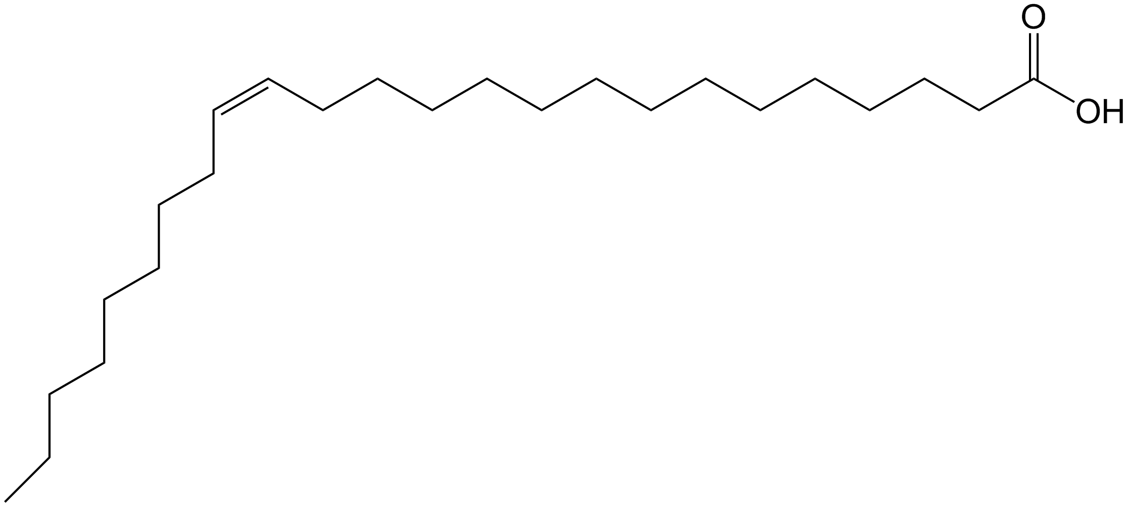 chemical structure of nervonic acid